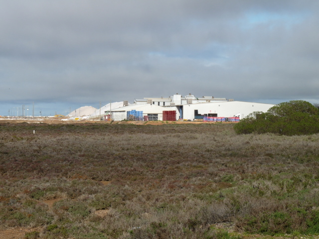 The buildings of the Price salt works